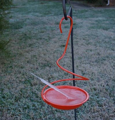 Ice spike formed in a birdfeeder overnight, Raleigh, NC, 01-19-2013 Cropped version of file uploaded to commons by Dranderson8